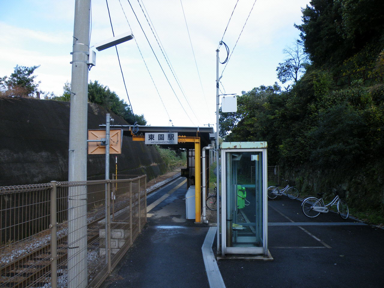 JR九州長崎本線東園駅(JRKyushu Higashisono Station)